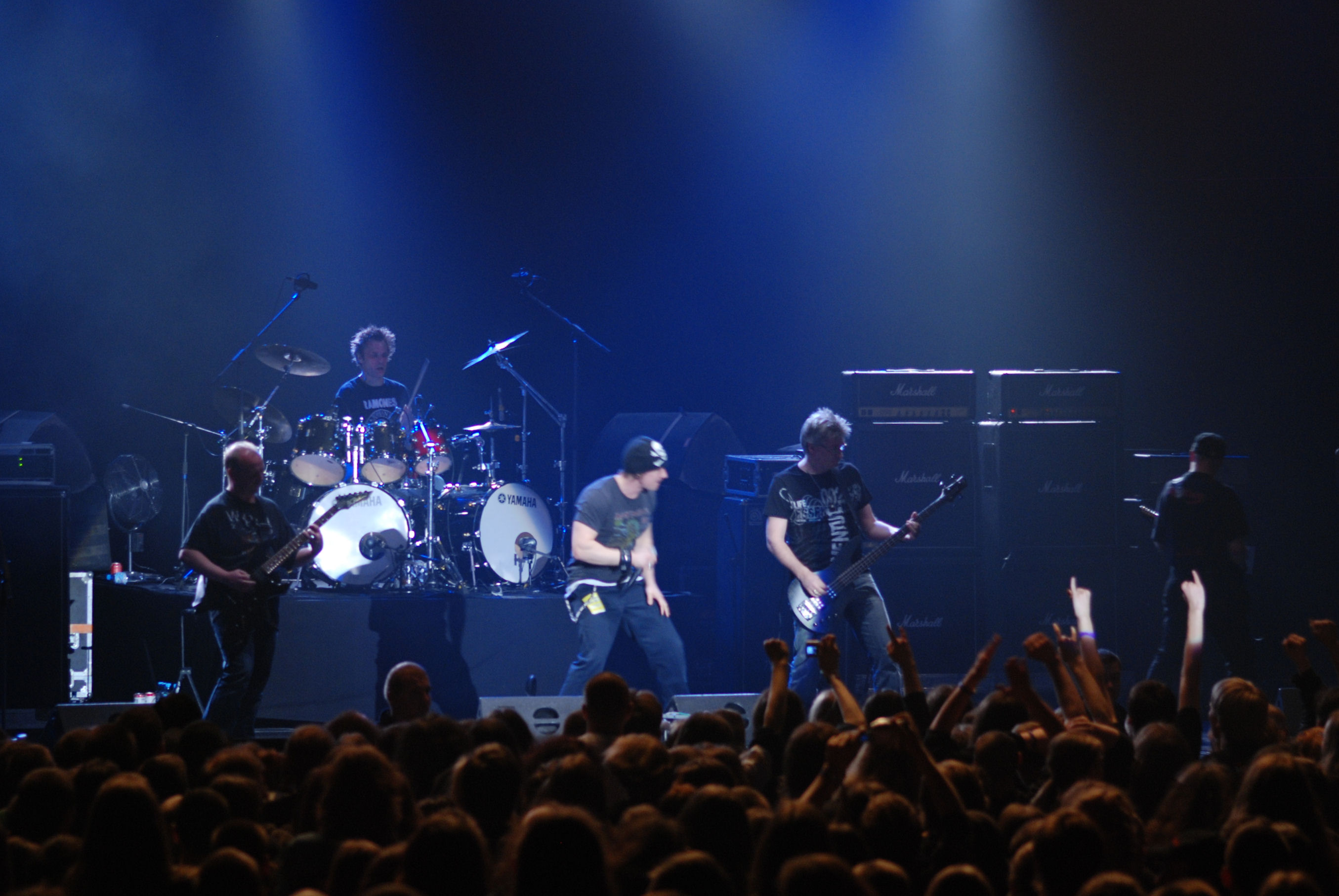 Artillery during Metalmania 2008 festival